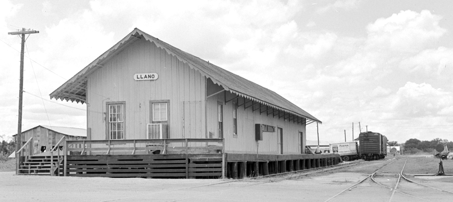 Title: [Texas and New Orleans, Southern Pacific Railroad Station, Llano, Texas] Creator: DeGolyer, Everett L. (Everett Lee), 1923-1977 Date: June 21, 1957 Part of: Everett L. DeGolyer Jr. collection of United States railroad photographs Place: Llano, Texas Physical Description: 1 negative: film, black and white; 6.4 x 6.2 cm Railway Line: Southern Pacific Railroad Company; Texas and New Orleans Railroad Company File: ag1982_0232_sp_station_llano_neg34164c_sm_c_opt.jpg Rights: Please cite DeGolyer Library, Southern Methodist University when using this file. A high-resolution version of this file may be obtained for a fee. For details see the web page. For other information, . For more information and to view in high resolution, see: View the Railroads: Photographs, Manuscripts, and Imprints Collection